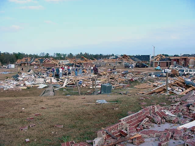 Major damage in Madison, Mississippi after a tornado touched down on 24 November 2001.